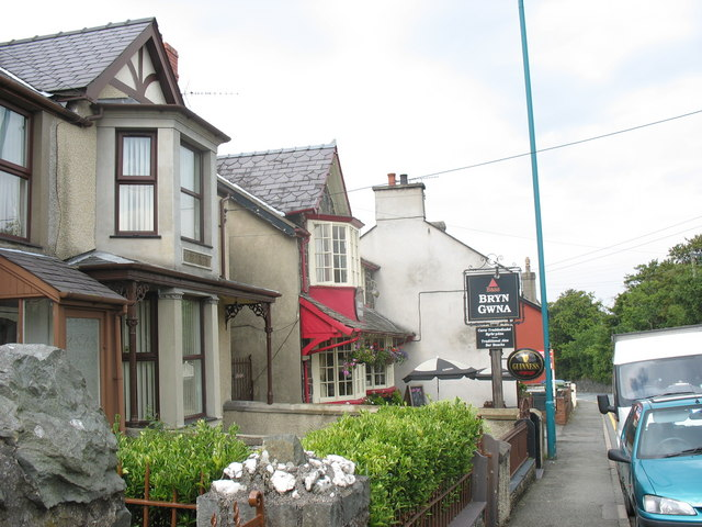 Bryn Gwna Inn, Caeathro.